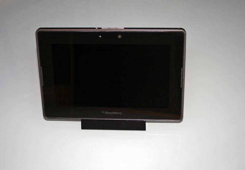 BlackBerry PlayBook plugged in BlackBerry charging pod with quick charging.